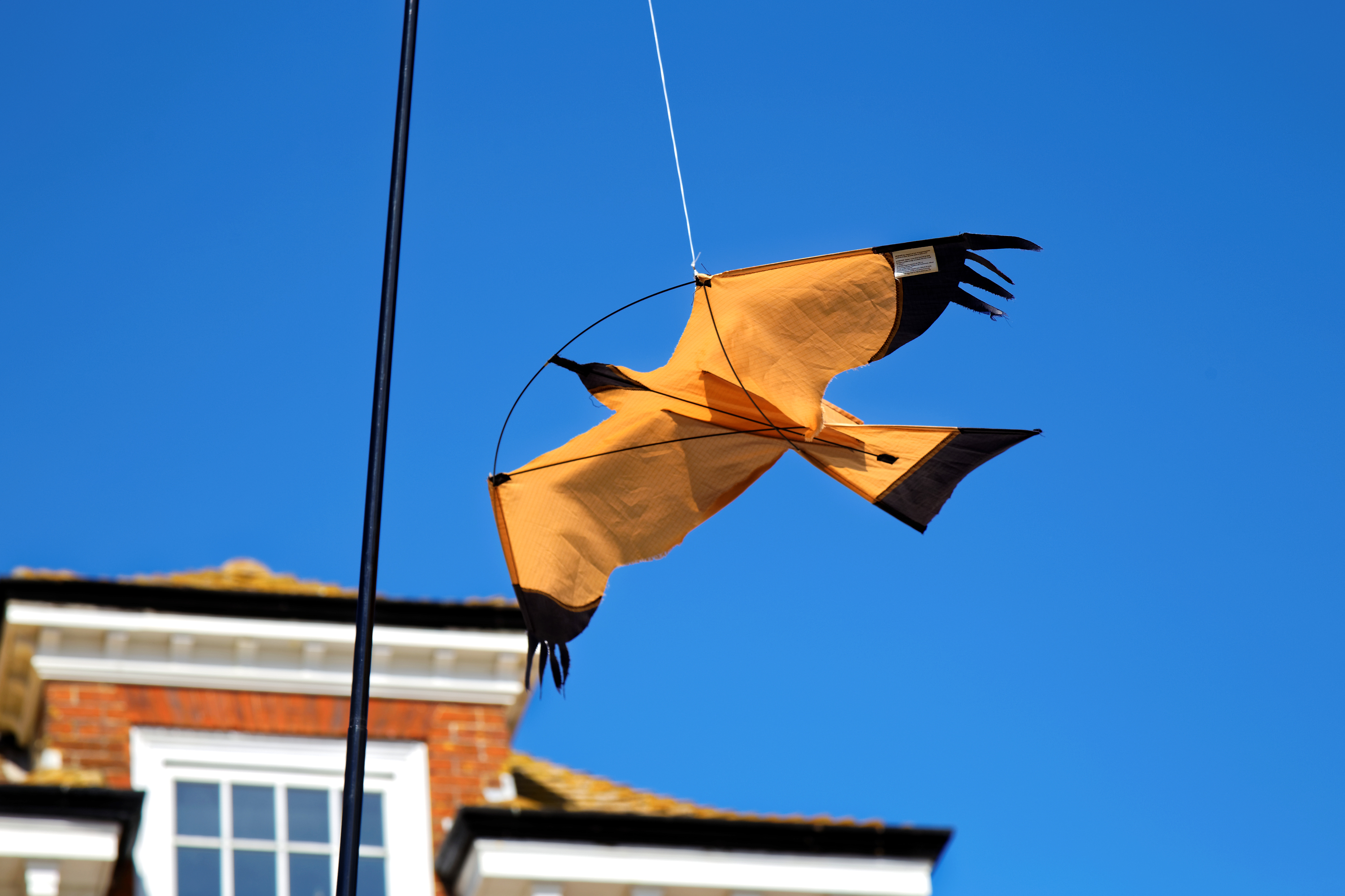 A hawk shaped kite bird scarer, 'flying' fixed to a flexible pole, used to repel opportunist gulls in a garden used for public consumption of food and drink, at Broadstairs in Kent, England.Camera: Canon EOS 6D with Canon EF 24-105mm F4L IS USM lens.Software: RAW file lens-corrected, optimized and converted to JPEG with DxO OpticsPro 10 Elite, and likely further optimized and/or cropped and/or spun with Adobe Photoshop CS2.